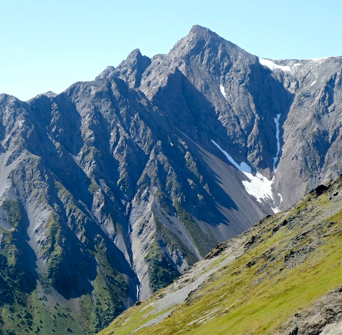 Lowell Peak 4416-ft, immediately northwest of Bear Mountain, near Seward Alaska